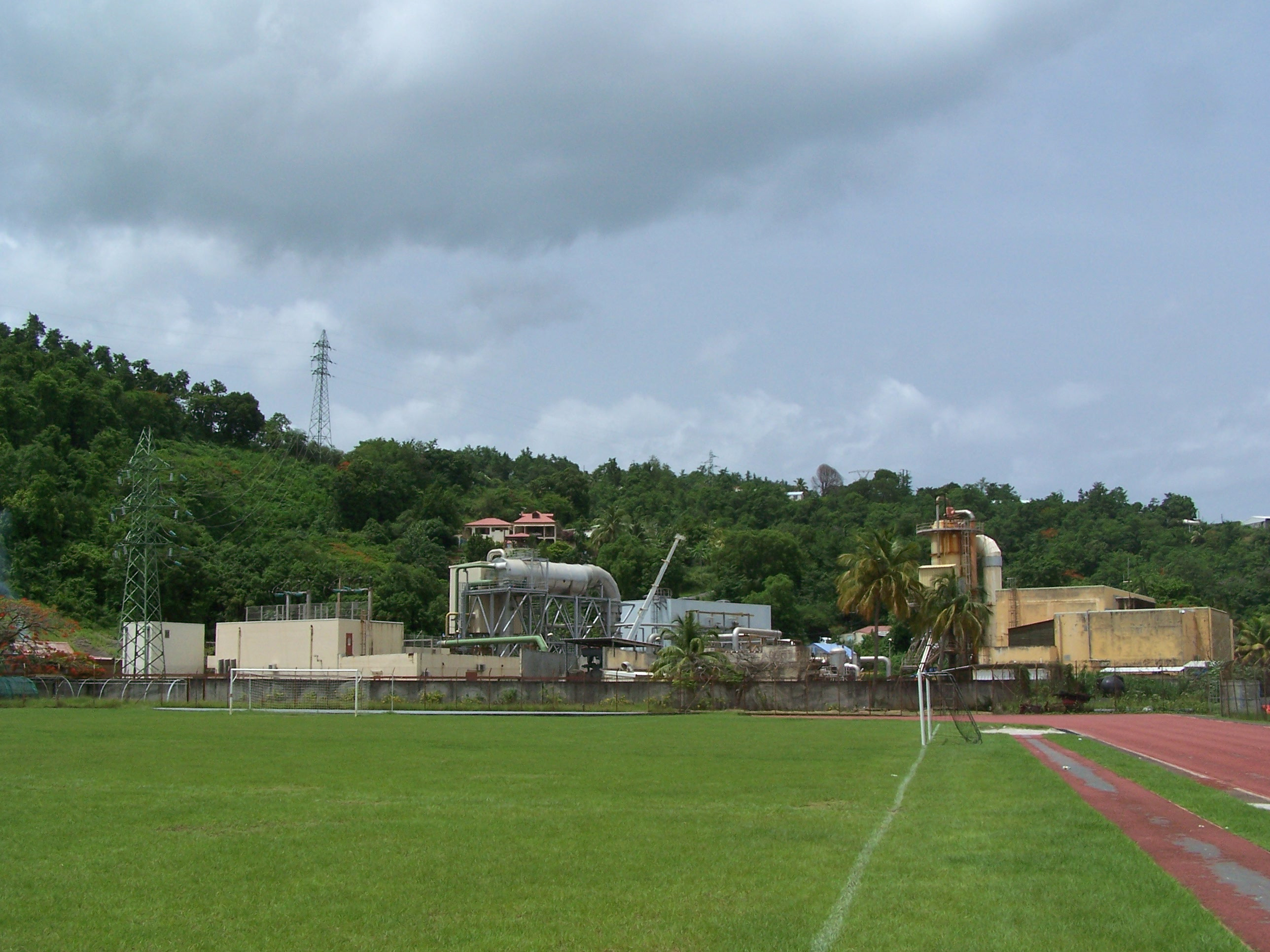 General view of the geothermal power plant of Bouillante, Guadeloupe